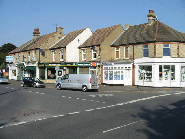 Shops on Broadway, Crockenhill